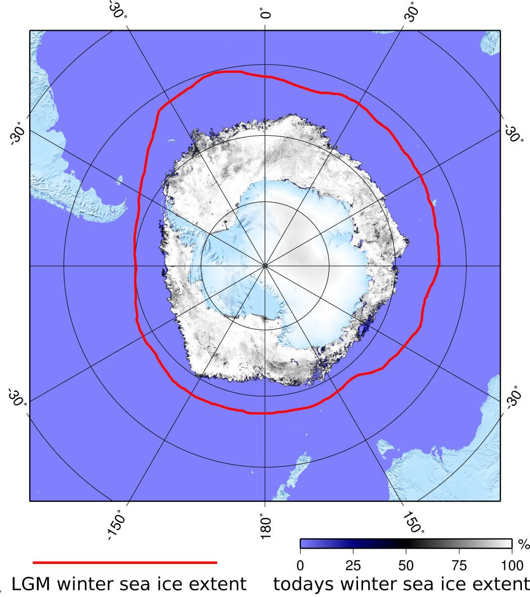 Sea ice extent in the Antarctic today compared to the last glacial maximum